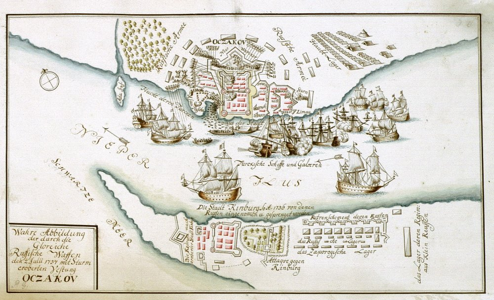 Battle for Otchakow 1737